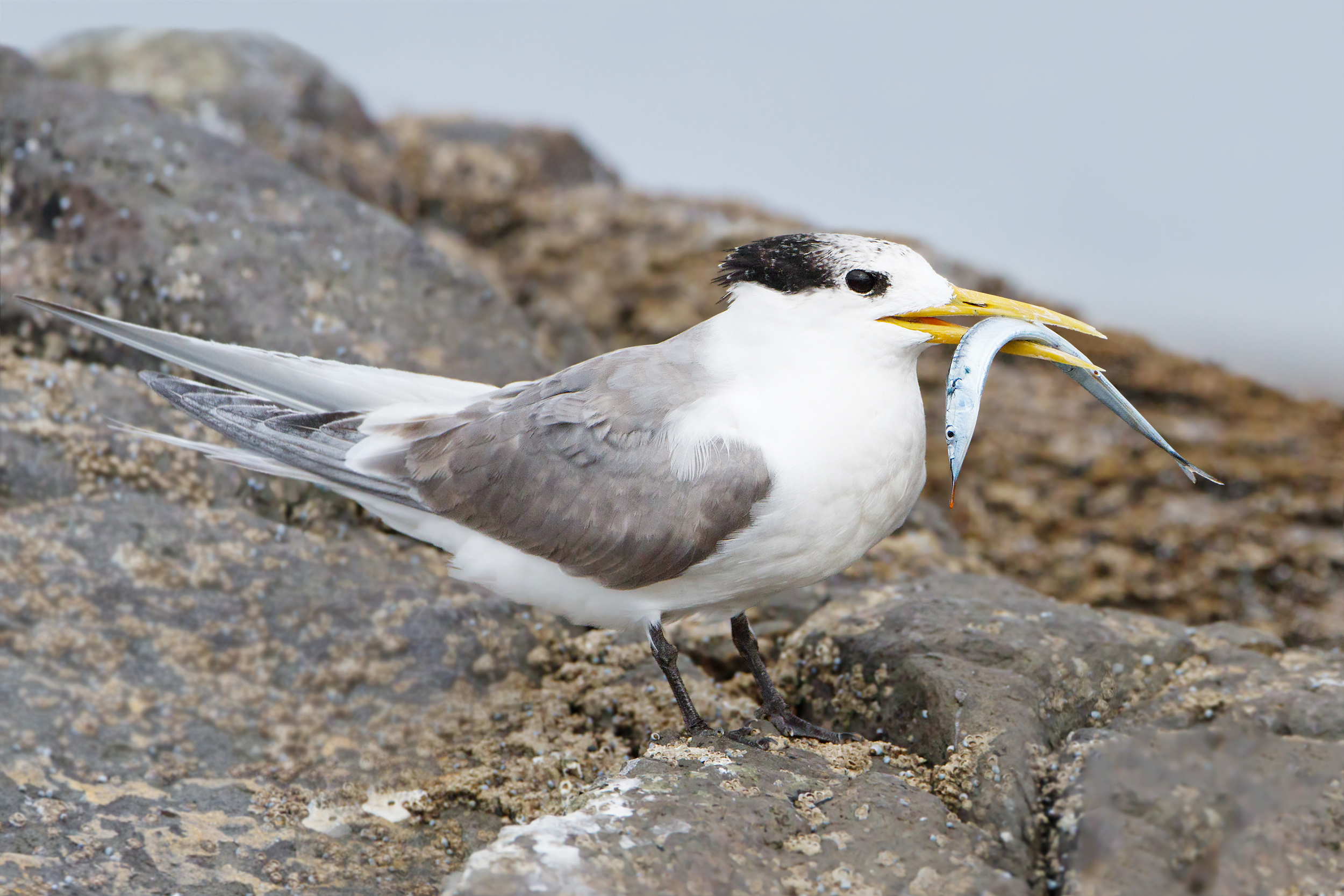 Greater Crested Tern (Thalasseus bergii), non-breeding plumage with a Southern Sea Garfish (Hyporhamphus Melanochir)